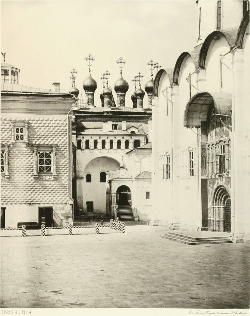 Verkhospassky Cathedral in Moscow Kremlin, 1883.